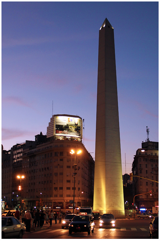 Obelisco de Buenos Aires at night October 15, 2011